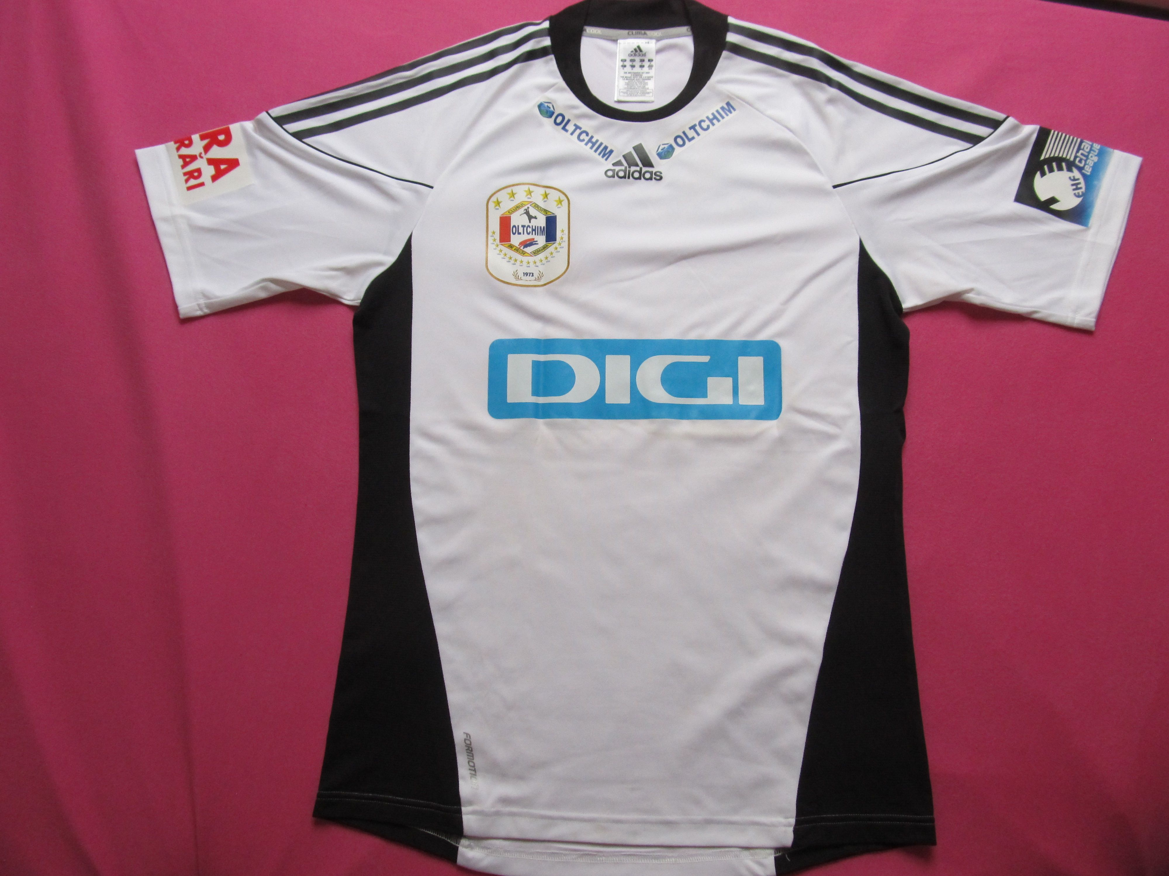 Jersey of the former Romanian handball team CS Oltchim Râmnicu Vâlcea, produced and sold to fans.